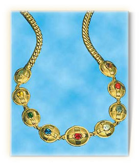 Picture of the piece I offered to HM. The Queen In 1993